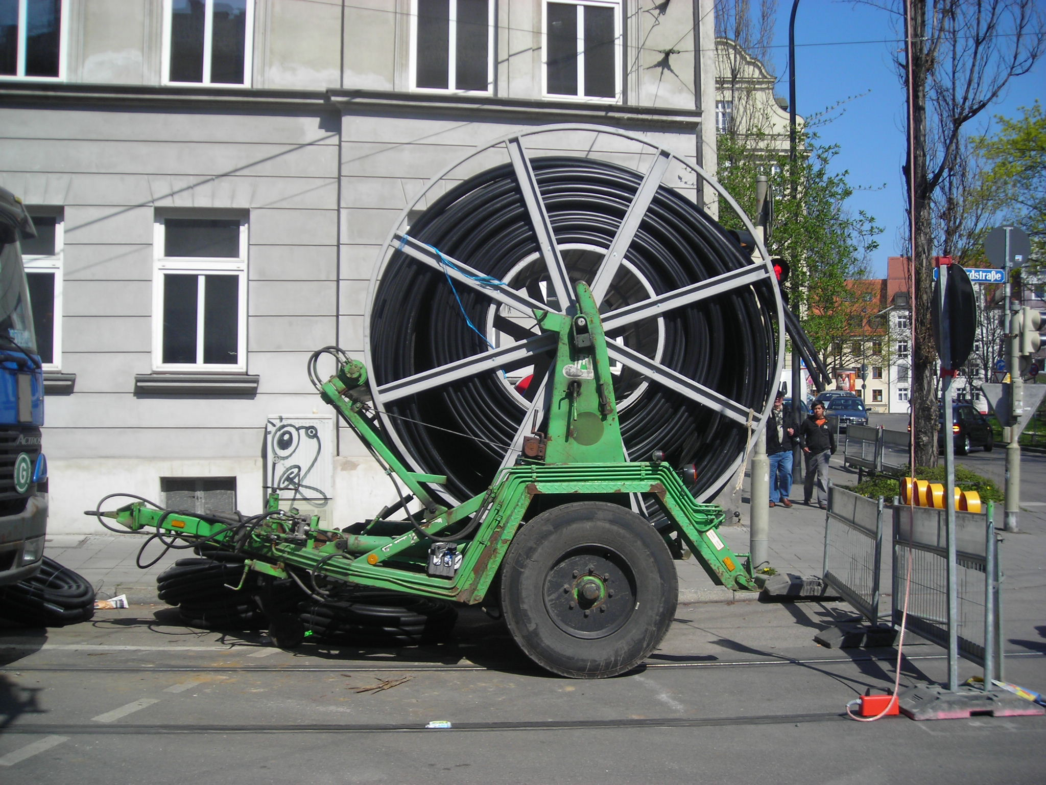 Trailer with reel